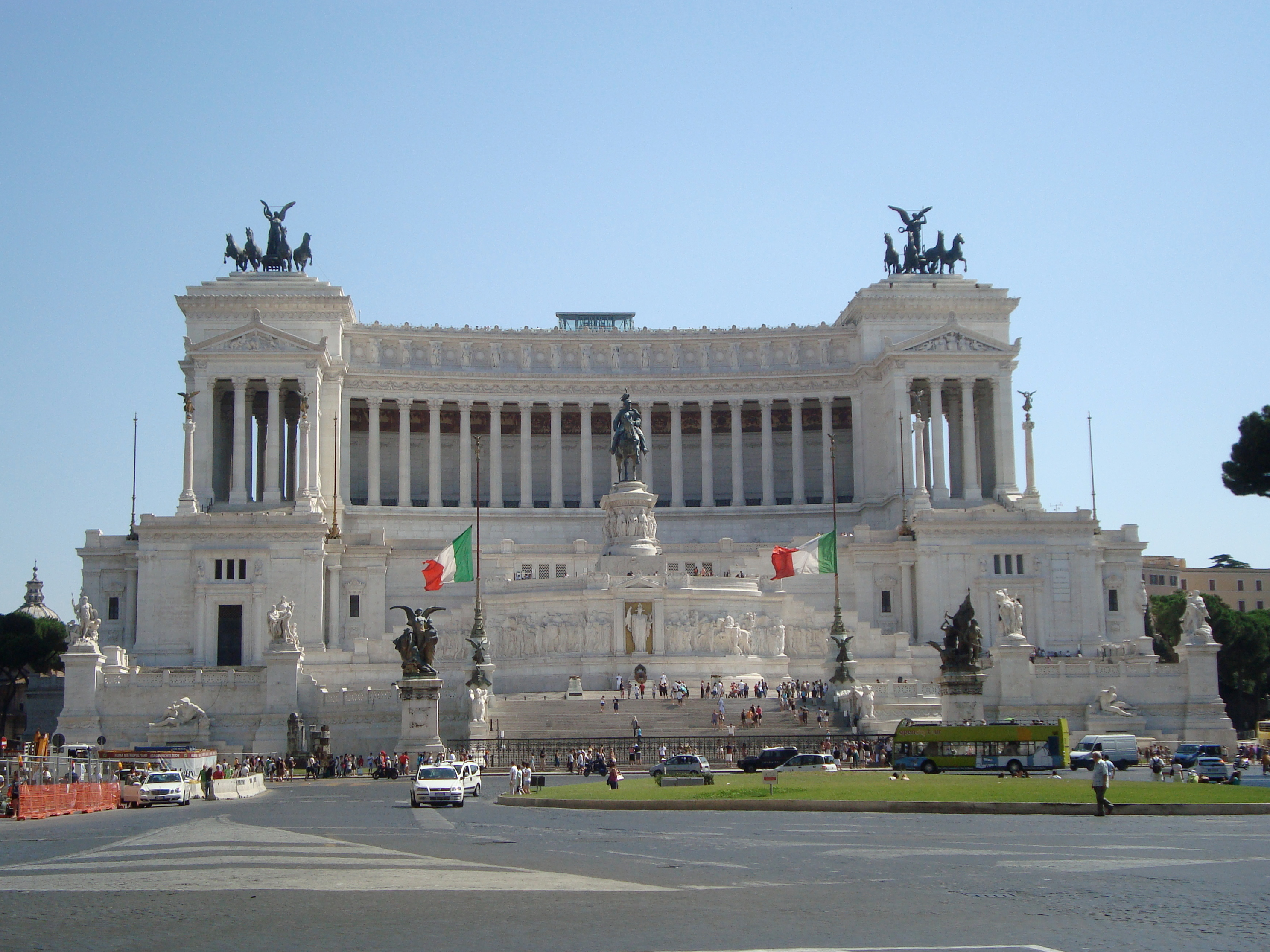 The Monument to King Victor Emmanuel II in Rome. The italian Tricolore are half-mast in sign of mourn for the death of the former president of Italy Francesco Cossiga, passed away on 17th August 2010.